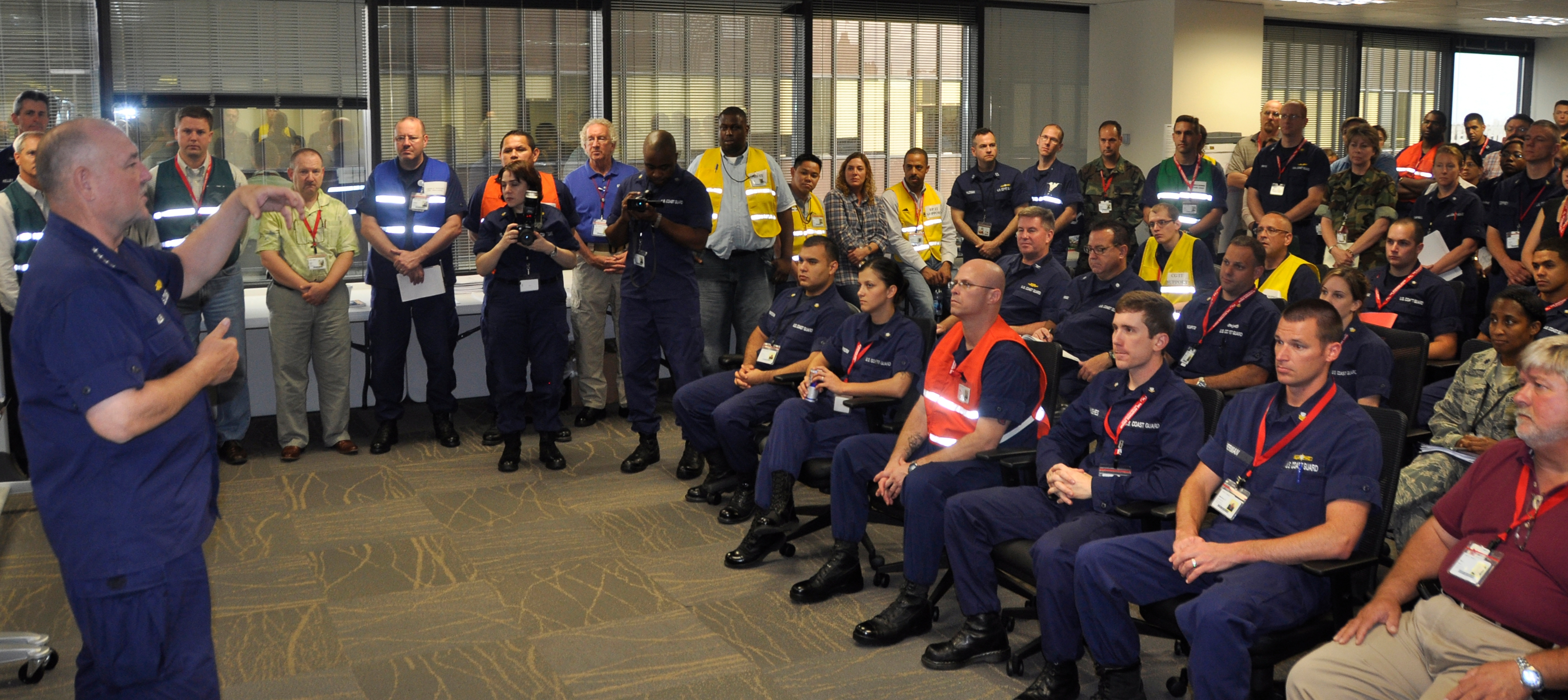 Adm. Thad Allen provides a briefing to the Unified Area Command in New Orleans Monday, June 28, 2010. Allen is the National Incident Commander for the BP Deepwater Horizon oil spill in the Gulf of Mexico.